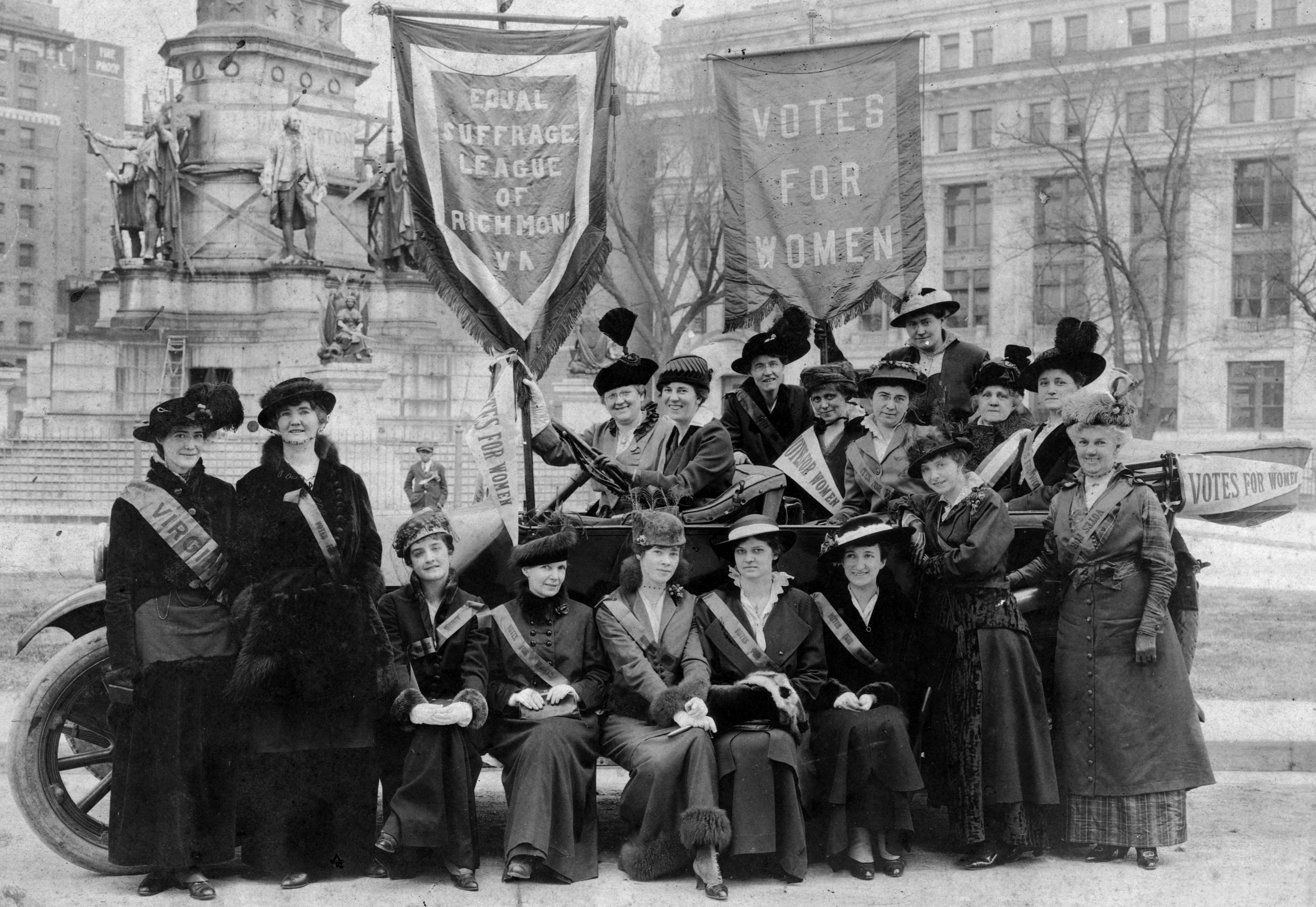 Equal Suffrage League of Richmond, Va. in front of Washington Monument, Capitol Square, Richmond. The members of the ESL were promoting the suffrage film, "Your Girl and Mine." "The members of the Equal Suffrage League photographed that day were:(left to right in car) Mrs. G. Harvey Clarke (Mary Ellen Pollard Clarke), Mrs. Roy Knight Flannagan (Lucy Catesby Jones Flannagan), Nora Houston, Mrs. John Grant Armistead (Rosalie Fontaine Jones Armistead), Mrs. Alice Overbey Taylor, Mrs. Della E. Hooker (widow of J. W. Hooker), Mrs. Charles Vivian Meredith (Sophie Meredith), Mrs. Georgia May Johnson (identified on photo as Mrs. Frank L. Johnson; perhaps Mrs. Francis L. Johnson)(left to right outside car) Adèle Clark, Mrs. Archer Gracchus Jones (Annie Boyd Jones), Mrs. John Garland Pollard (Grace Phillips Pollard), Mrs. Carter Wormeley (Sarah Harvie Wormeley), Mrs. Earnest Meade (Aline Jennings Mead(e), Mrs. Earnest C. B. Meade), Lynda McClanahan Koiner, Mrs. James Stuart Reynolds (Virginia “Boogie” Dickinson Reynolds), Mrs. W. Hill Urquhart (Dorothy Gordon Tait Urquhart), Mrs. W. W. Foster (Carrie Palmore Hughes Foster)"[1] Photo published in The Times-Dispatch: Richmond, Va., February 28, 1915, p. 10. From the Adèle Goodman Clark Papers, Special Collections and Archives, VCU Libraries.